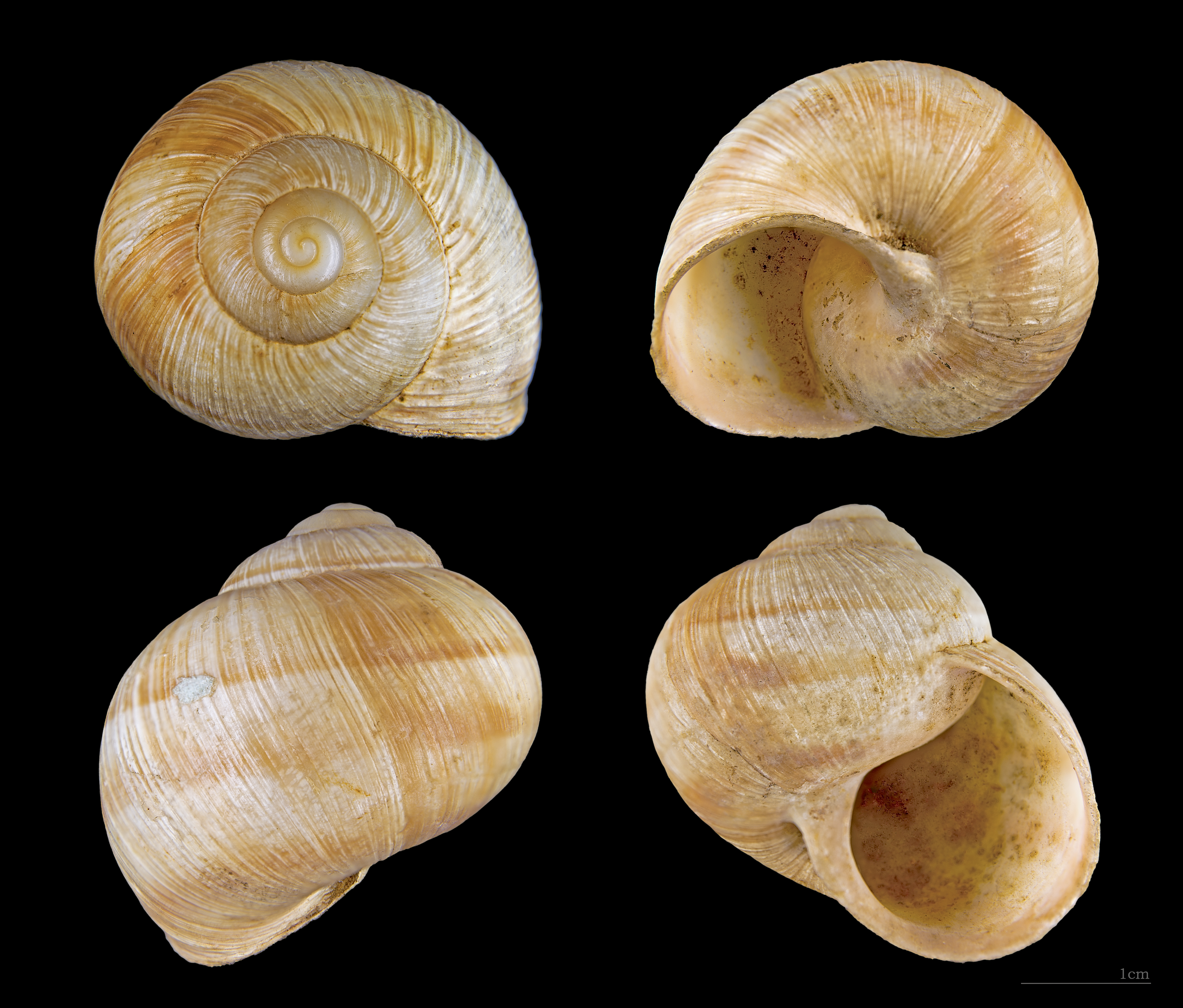 Shells of Burgundy snail.